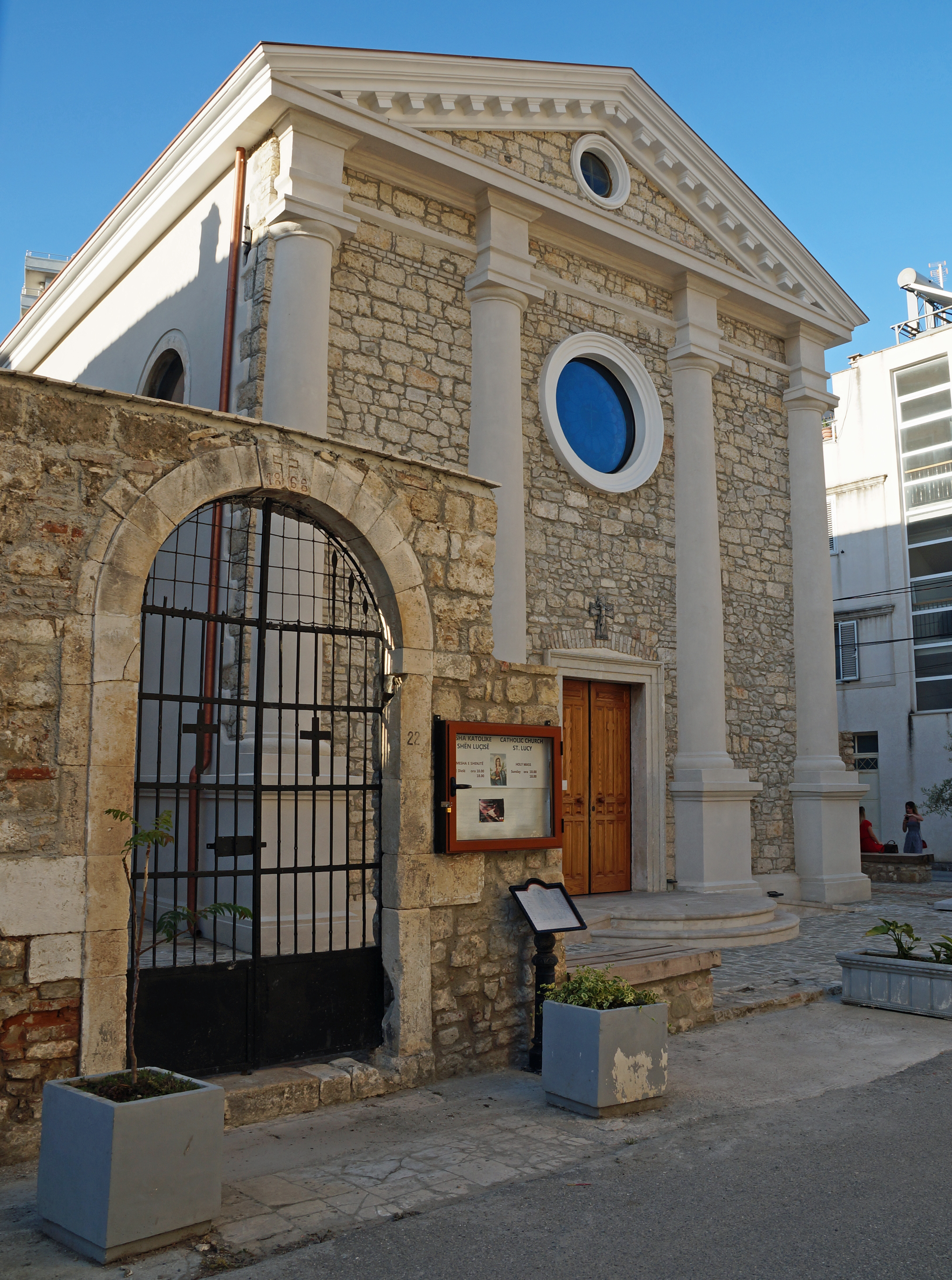 St. Lucia Cathedral in Durrës, Albania, after renovation